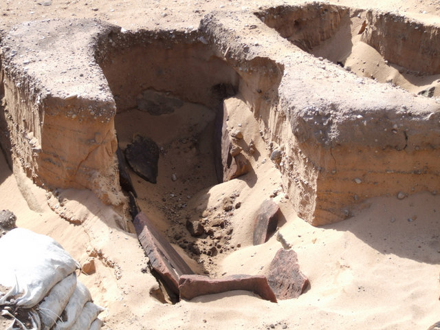 Excavated ancient grave at Tarbat Old Church